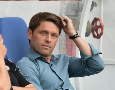 Luc Holtz